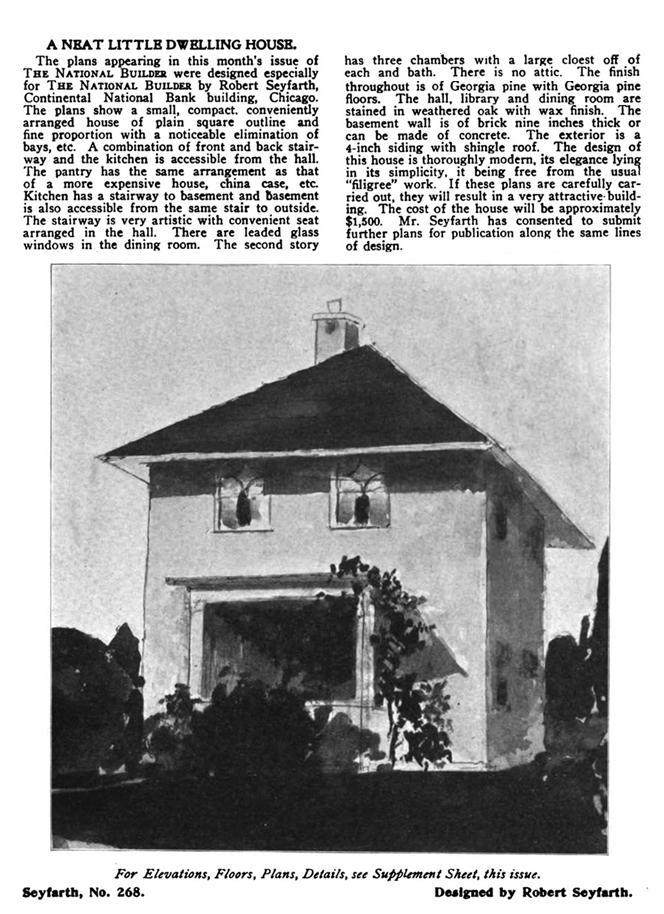 Image and description of house designed by Robert Seyfarth for National Builder Magazine, May of 1905